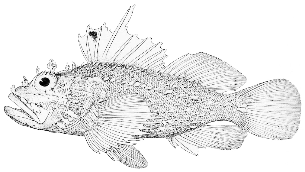 Iracundus signifer Jordan & Evermann. From the type Subject: Iracundus, Scorpionfishes Tag: Fish